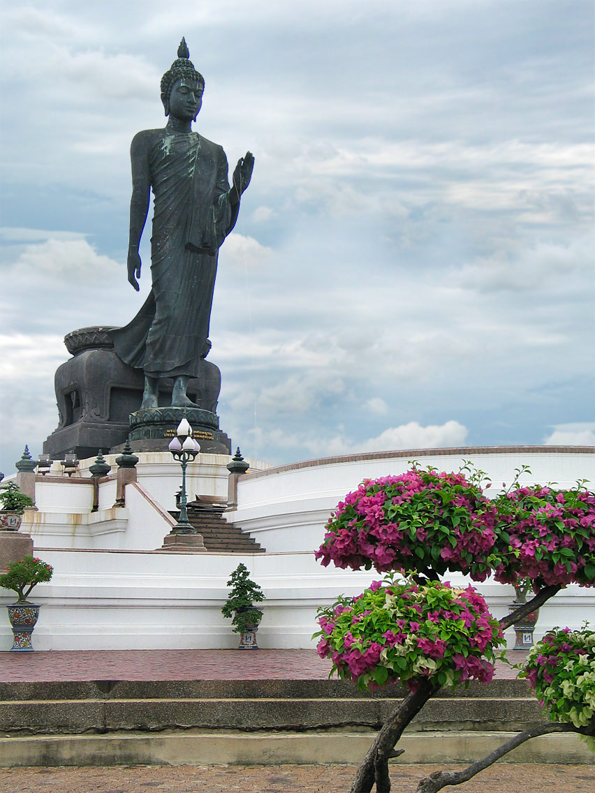 Walking Buddha created by Prof. Silpa Bhirasri at Phutthamonthon-Park, Nakhon Pathom, Thailand The attitude of this standing image with raised left hand is called "halting the sandalwood image". It is not to be confused with "stopping the relatives from fighting" (raised right hand).